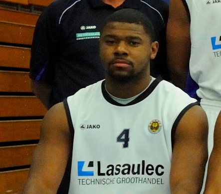 American professional basketball player Lance Jeter in 2011, during a photo shoot of his former team Aris Leeuwarden.